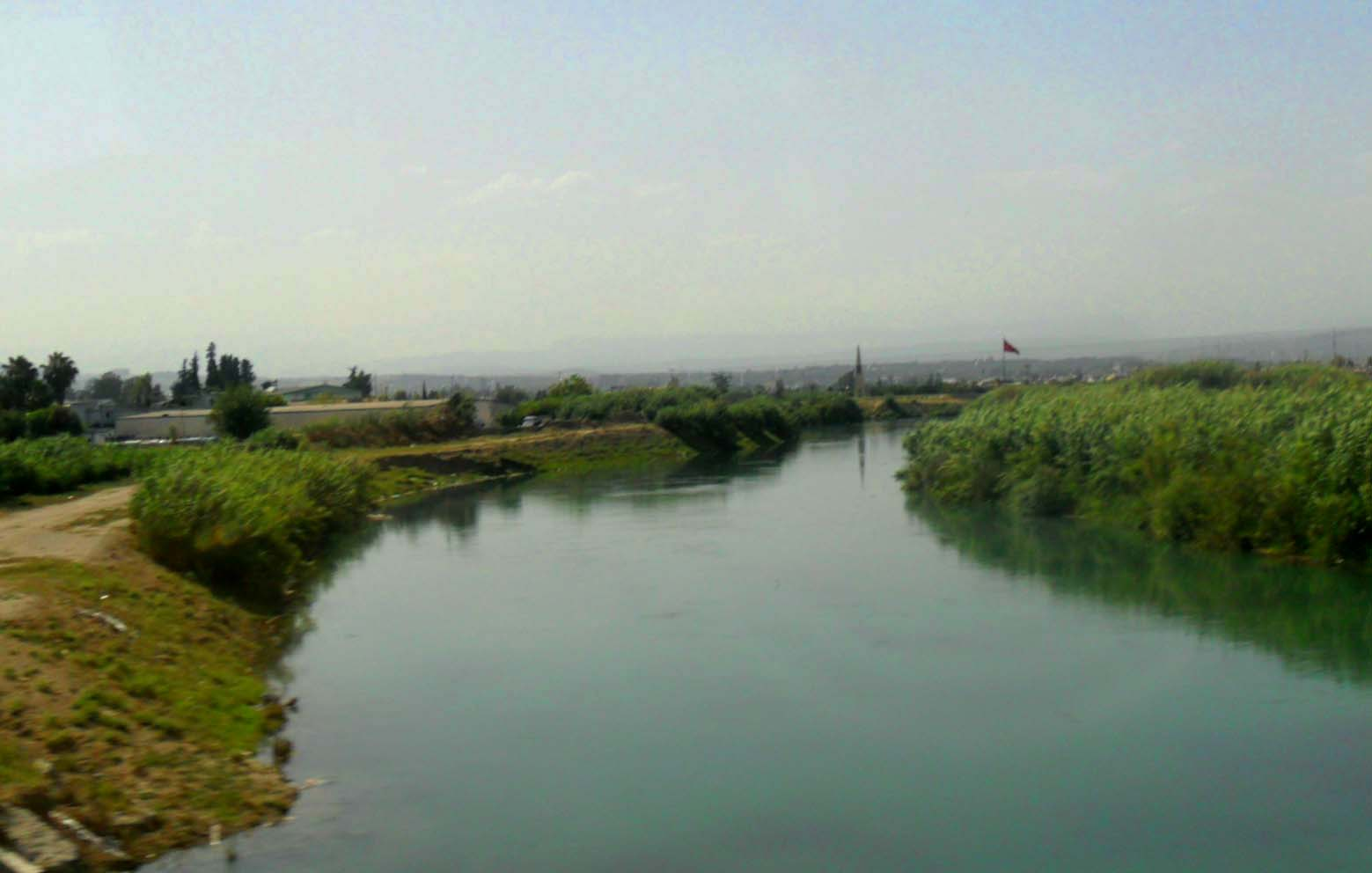 Berdan River, Tarsus district of Mersin Province, Turkey